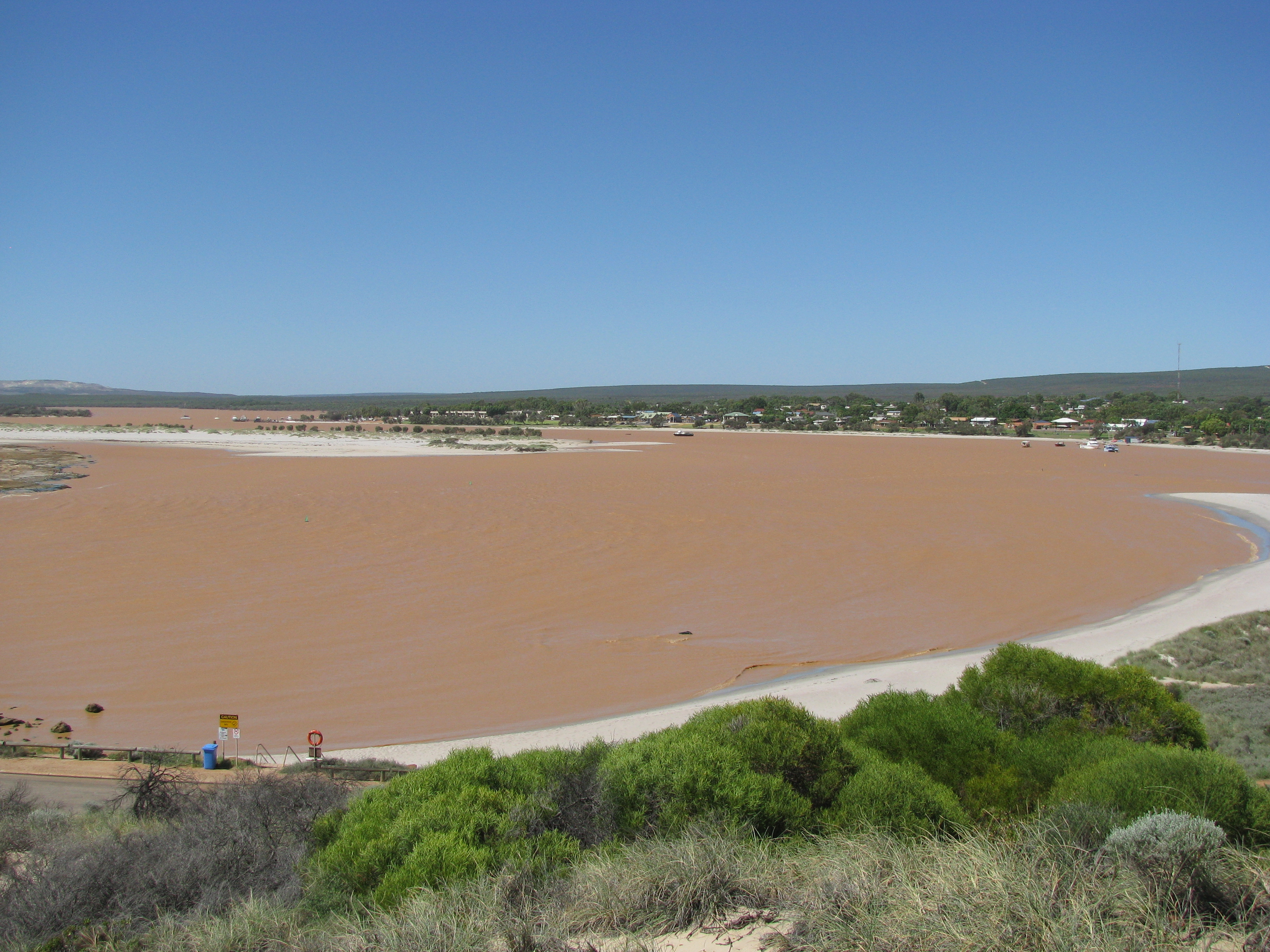 After heavy rains the Murchison river turns a vibrant brown color, laden with chemicals, dead animals, fecal matter and dangerous bacteria. This is dangerous to swim in and fish from. It is also a breeding ground for mosquitoes which carry harmful diseases.